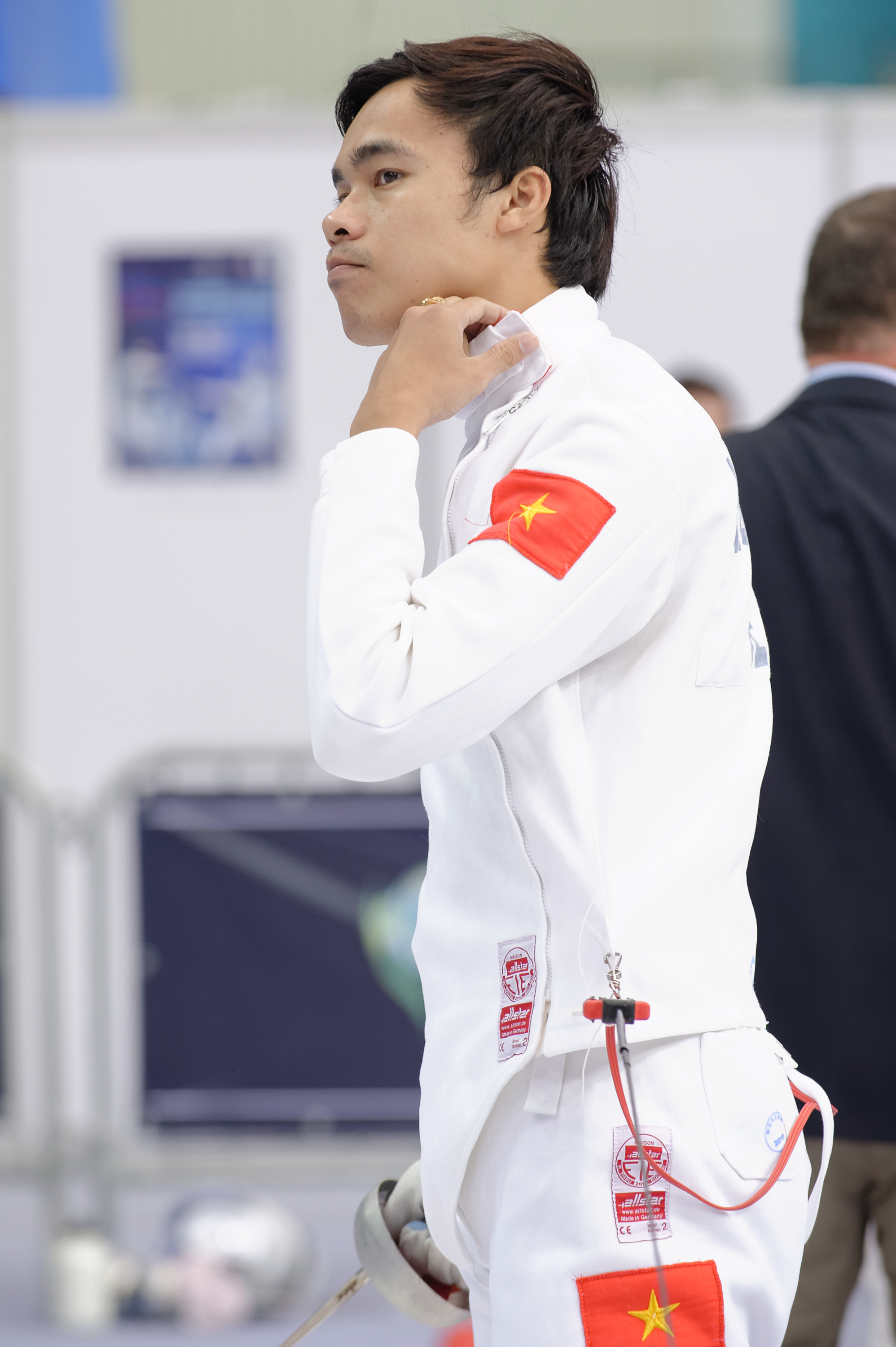 Vietnam's Nguyễn Tiến Nhật (men's épée) at the 2015 World Fencing Championships on 14 July 2014 at the Olympic Stadium in Moscow.